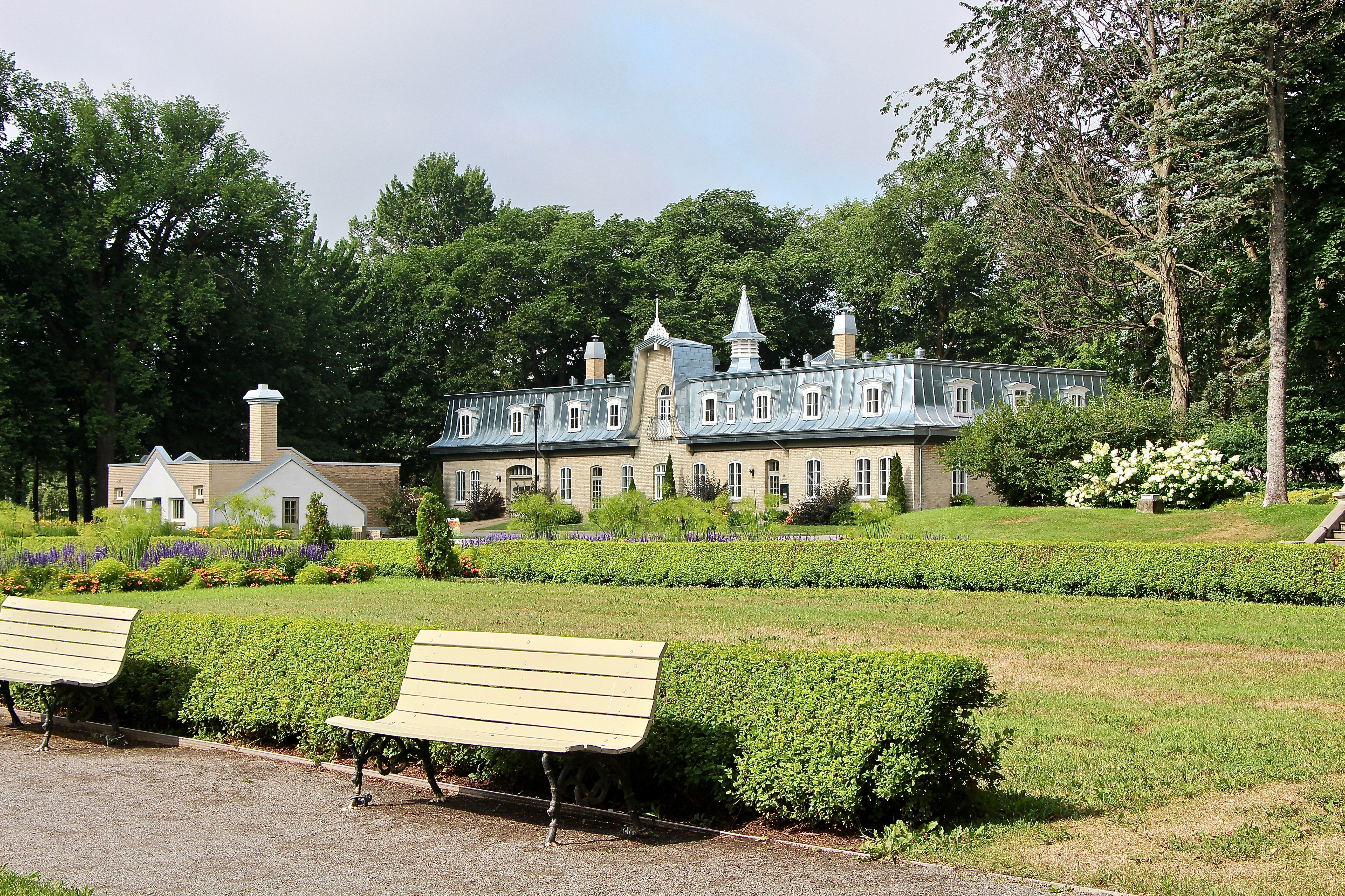 Bois-de-Coulonge Park, 1215, Grande Allée West, Quebec City, Quebec, Canada, G1S 1E7.